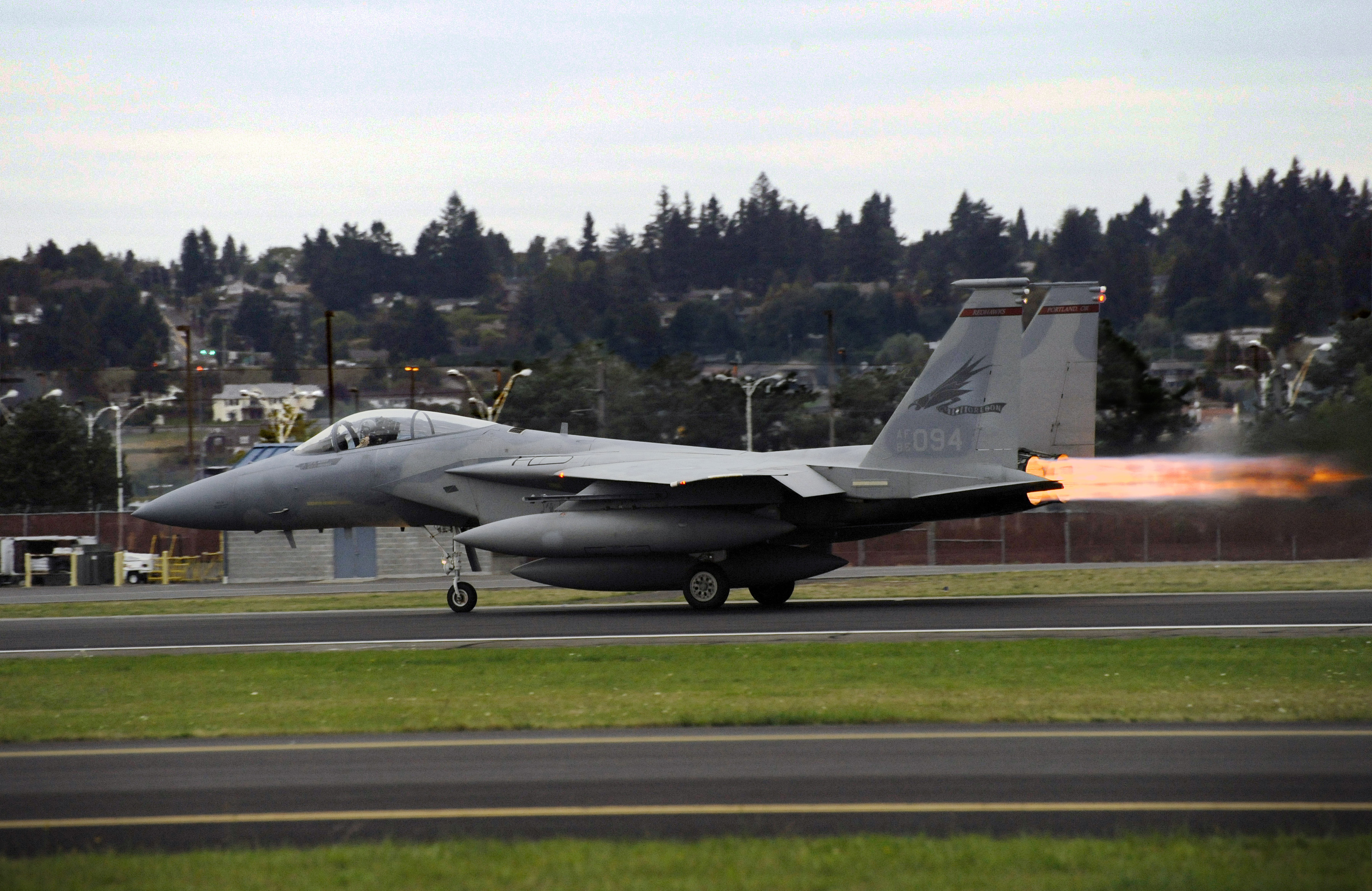 An Oregon Air National Guard F-15C Eagle takes off from the Portland Air National Guard Base Oct. 2, 2010. (U.S. Air Force photo/Staff Sgt. John Hughel)